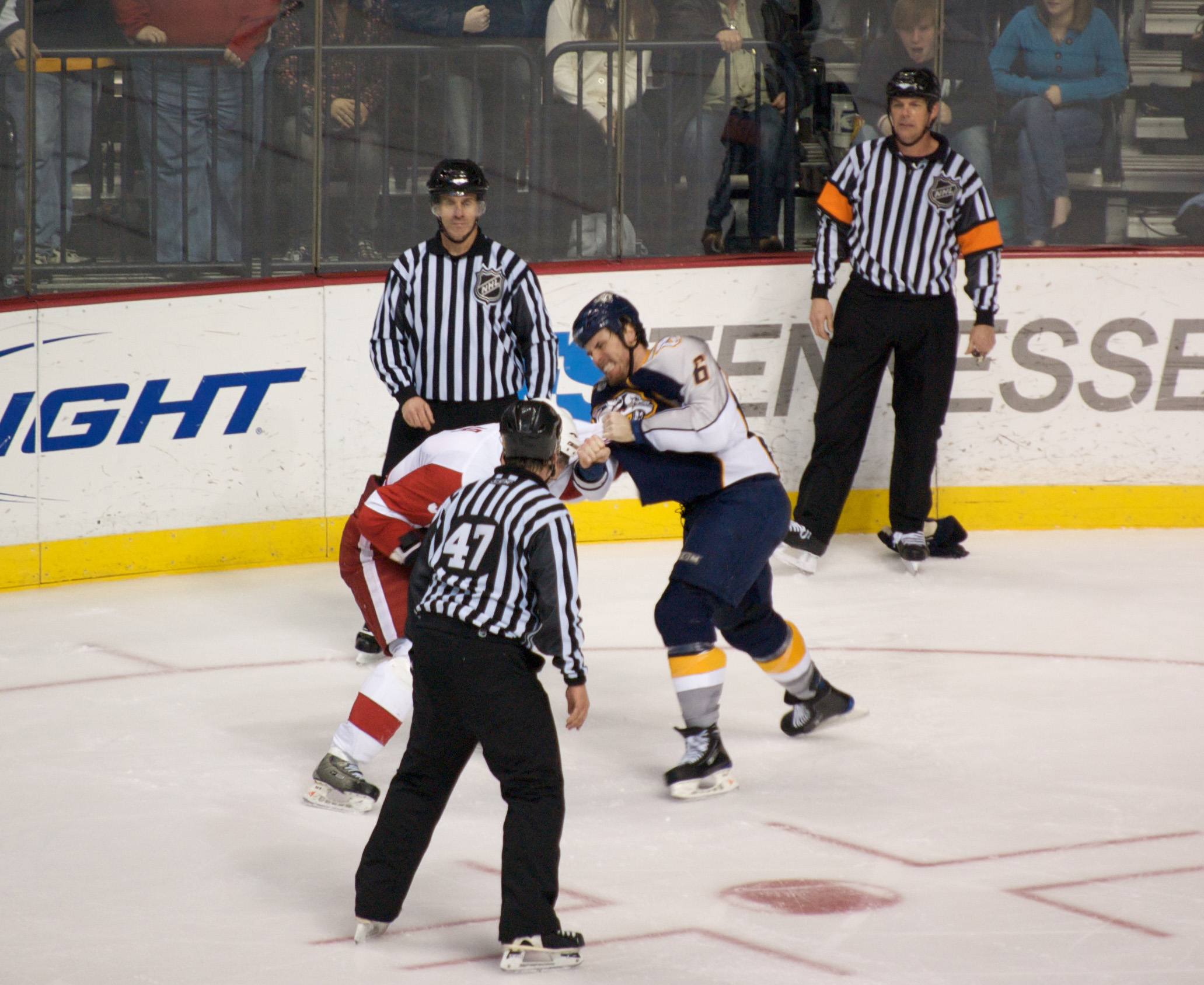 I love Weber's expression here. Predators 8 - Red Wings 0 02-28-09